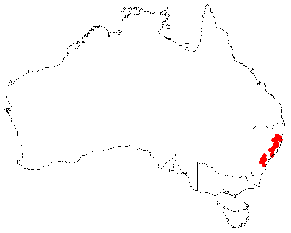 Parsonsia purpurascens Occurrence data for Australia from Australasian Virtual Herbarium downloaded 22 December 2018